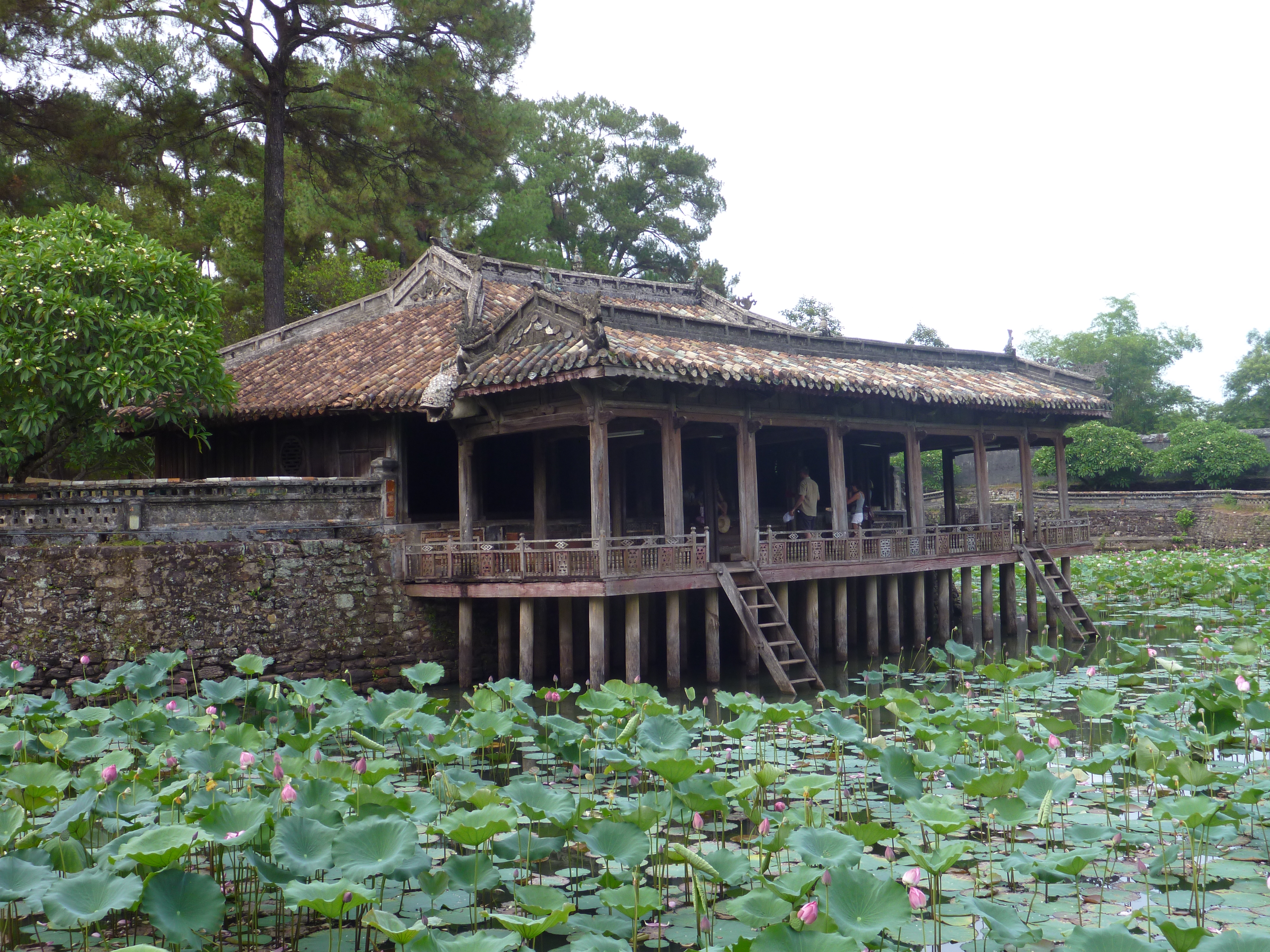 Tomb of Emperor Tu Duc